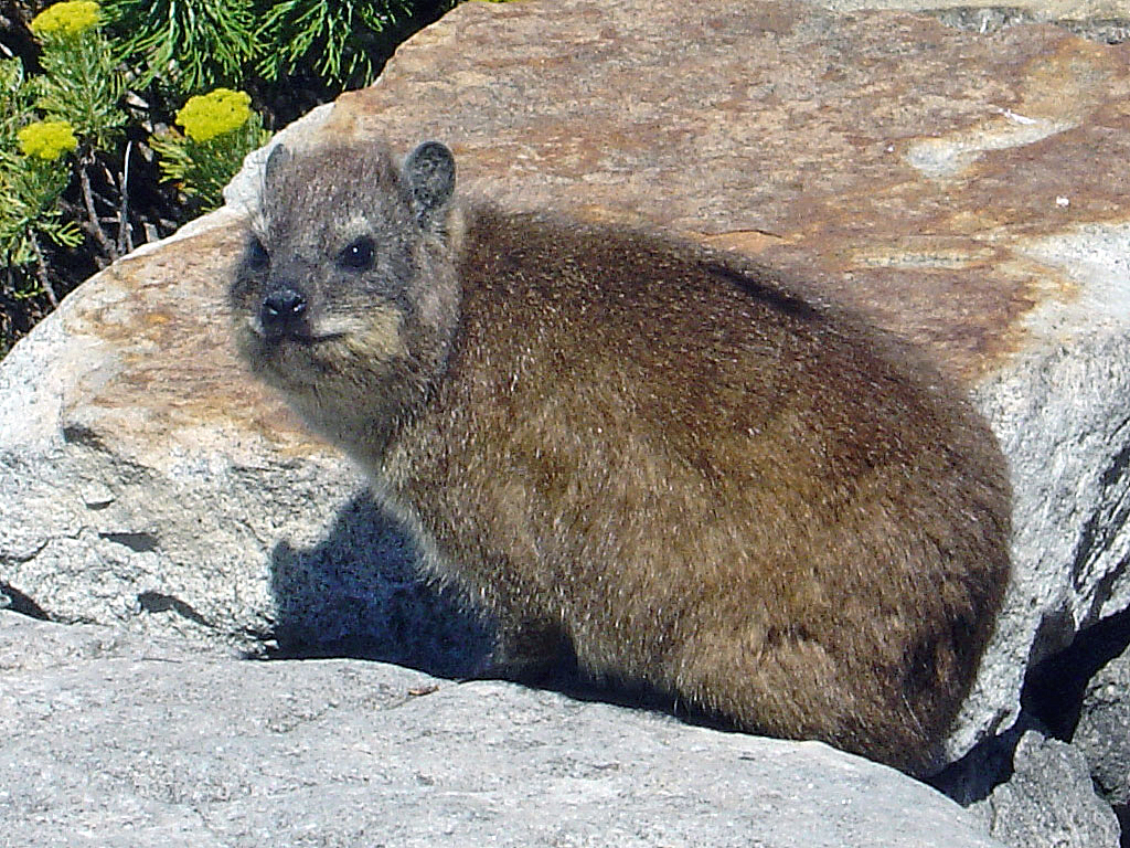 Dassie (Cape Hyrax) photgraphed on Table Mountain, Cape Town. The photo was taken on the rocks near the upper cable car station.